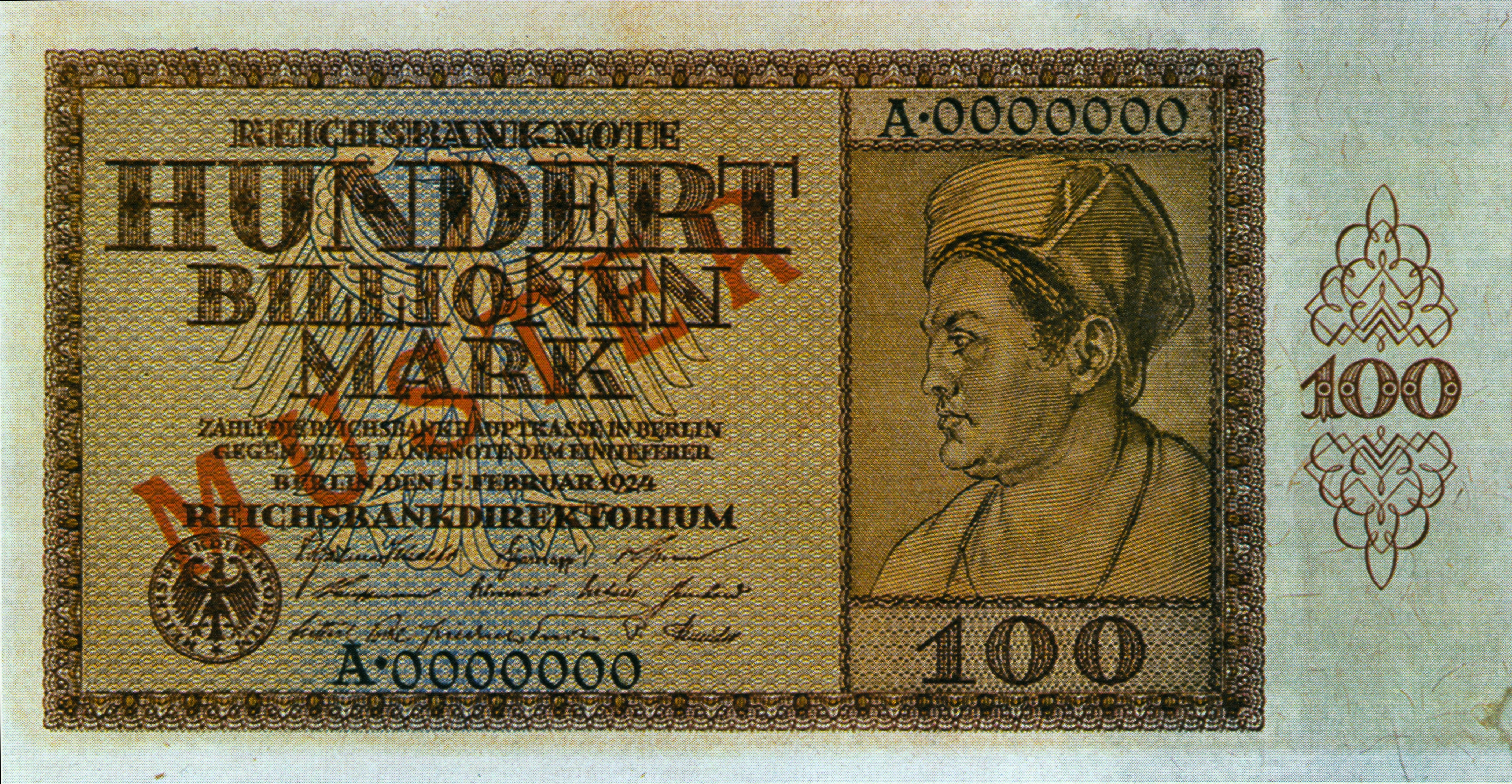 Old german 100 Billion mark note, printed in 1924